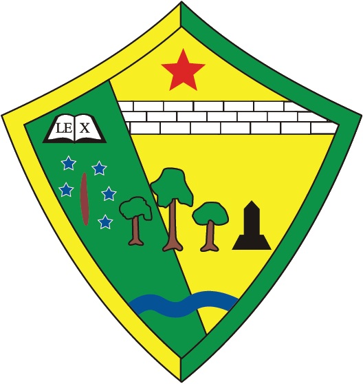 Coat of arm of the city of Brasiléia, Acre, Brazil.